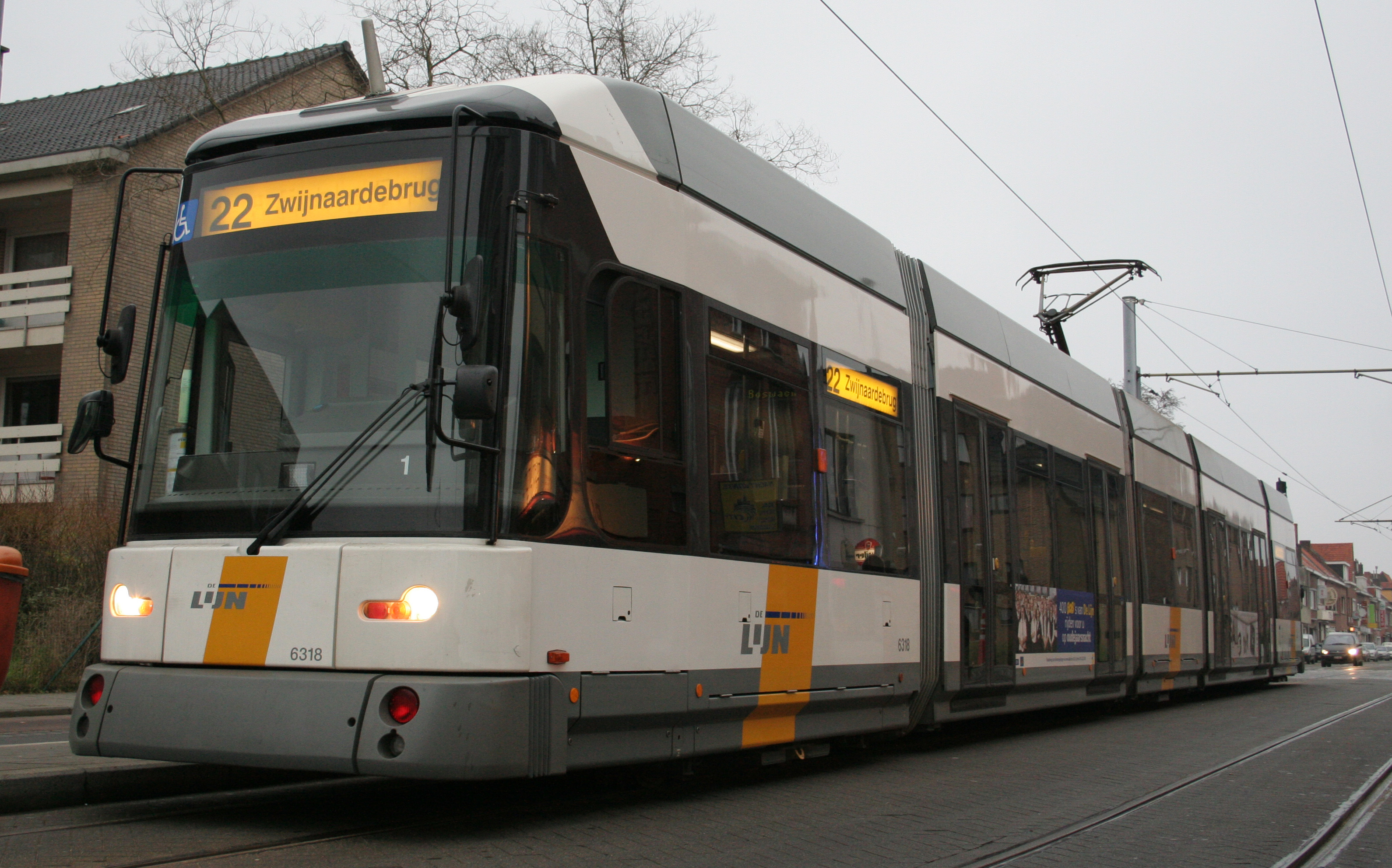 Hermelijn Tram in Gent